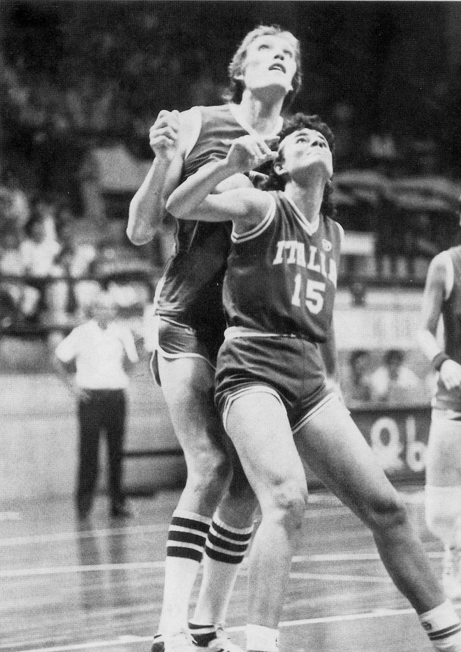 Italian basketball player Stefania Passaro (No. 15) boxing out the Soviet Uliyana Semynova